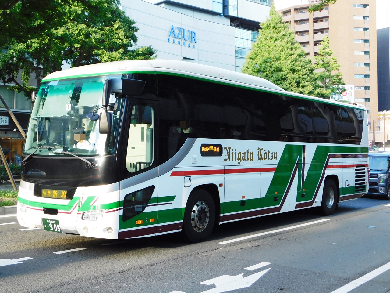 Niigata kotsu Isuzu Gala on highwaybus "Niigata-Sendai"